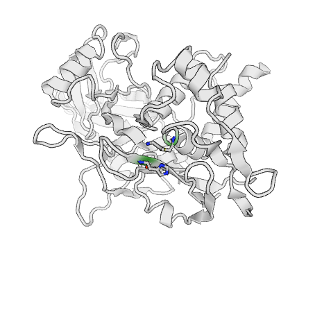 Zona activa USP30